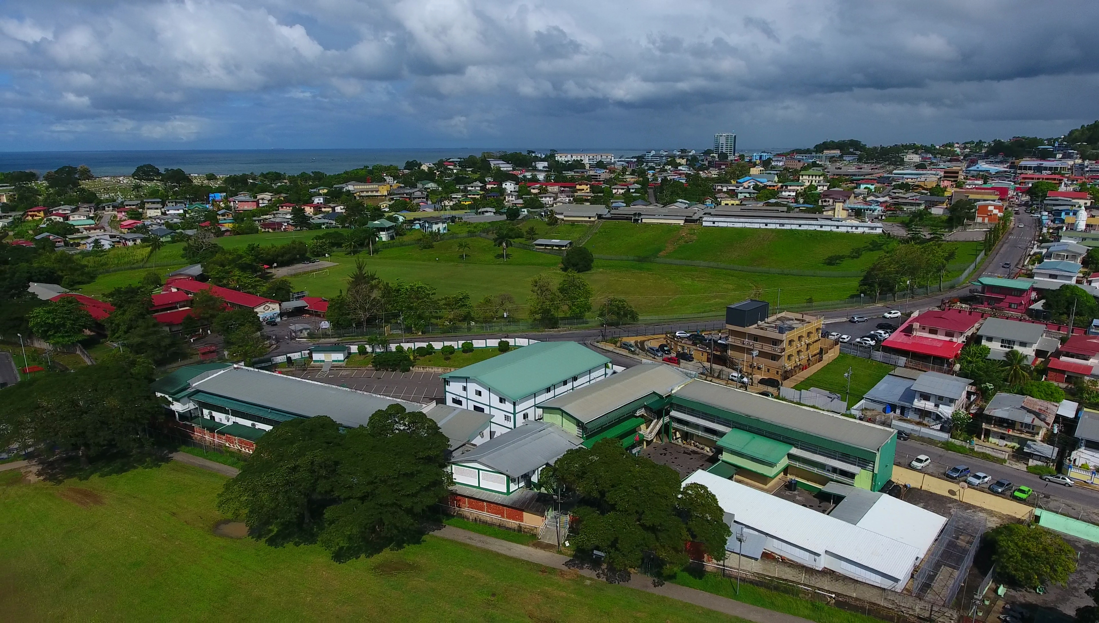 ASJA colleges, San Fernando, Trinidad and Tobago. Two muslim secondary schools: ASJA Girls' College (left) and ASJA Boys' College (right). Photo taken as part of the Southern Trinidad Aerial Photo Project, a small project sponsored by WMDE. Drone used: DJI Phantom 4. Snapshot taken from video footage via VLC.